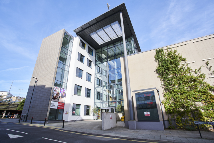 Bellerbys Brighton facilities - exterior